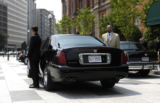 Two Diplomatic Security special agents take up positions as the motorcade waits in front of Blair House. 25JUL2005